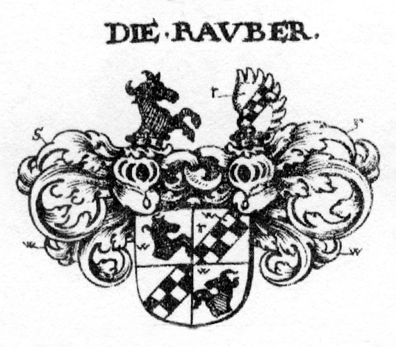 Coat of Arms of Rauber, Austria